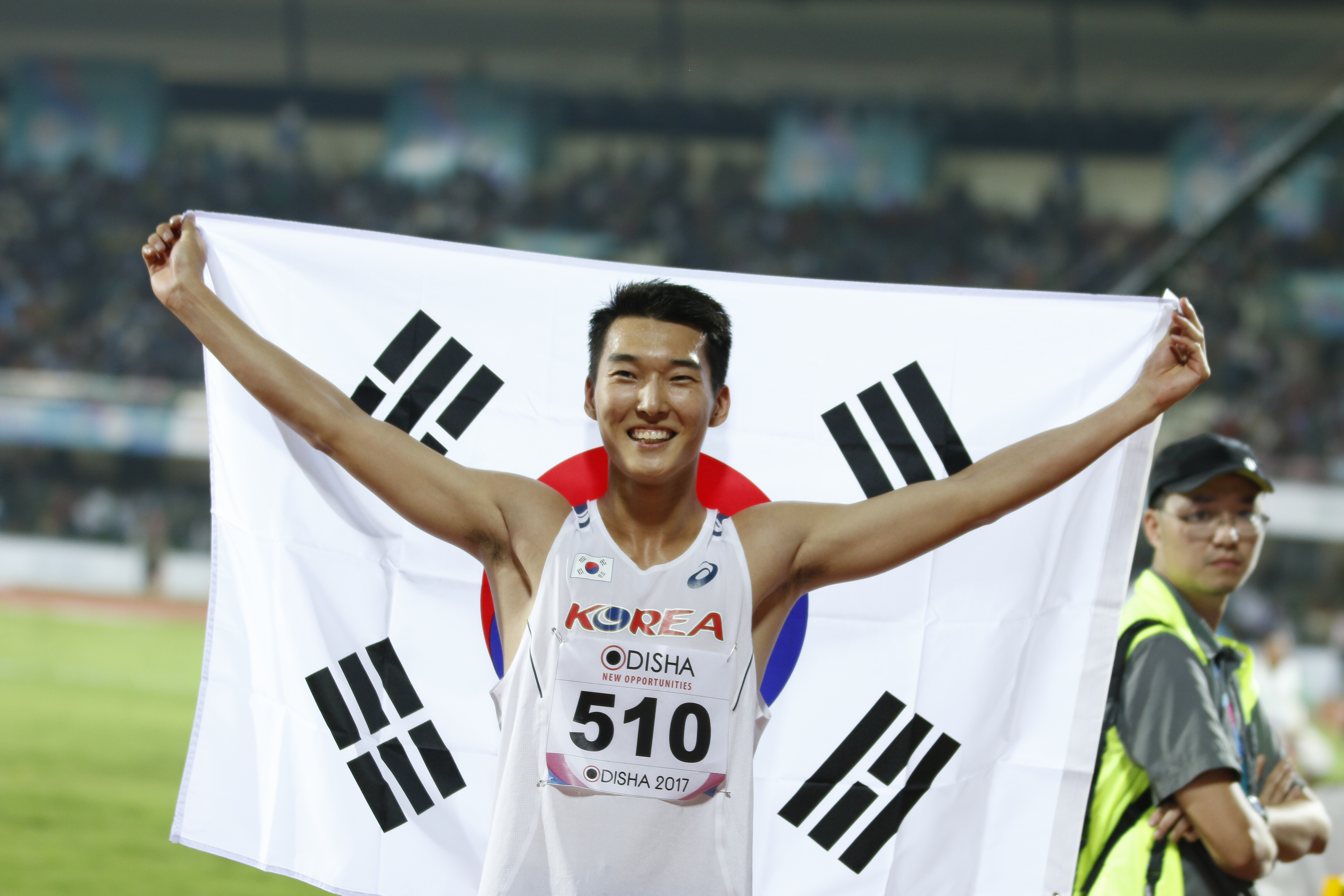 Athletes during 22nd Asian Athletics Championships in Bhubaneswar.